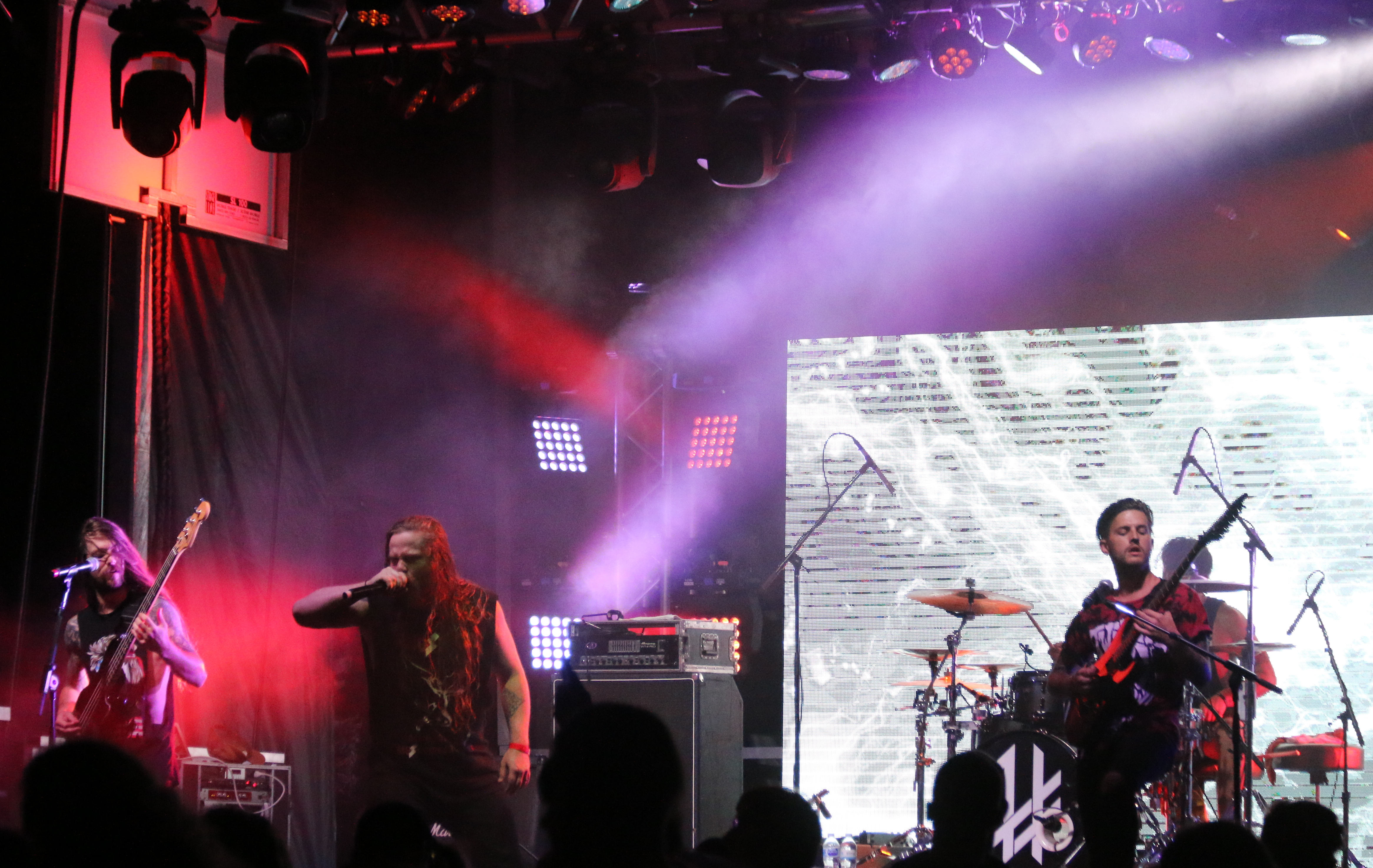 Phinehas performing at Lifest.